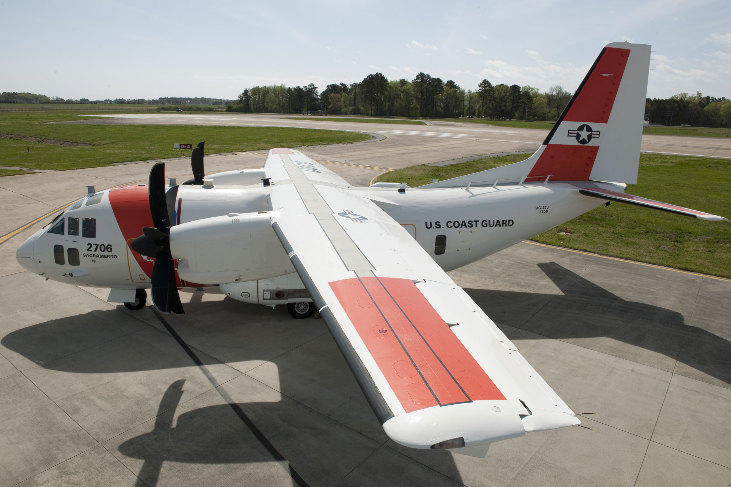 A C-27J Medium Range Surveillance airplane sits on the runway at Coast Guard Aviation Logistics Center in Elizabeth City, North Carolina, Thursday, March 31, 2016. The C-27J is the newest Coast Guard aircraft to join the fleet and will be used in maritime patrol, drug and migrant interdiction, disaster response, and search and rescue missions. U.S. Coast Guard photograph by Chief Petty Officer NyxoLyno Cangemi